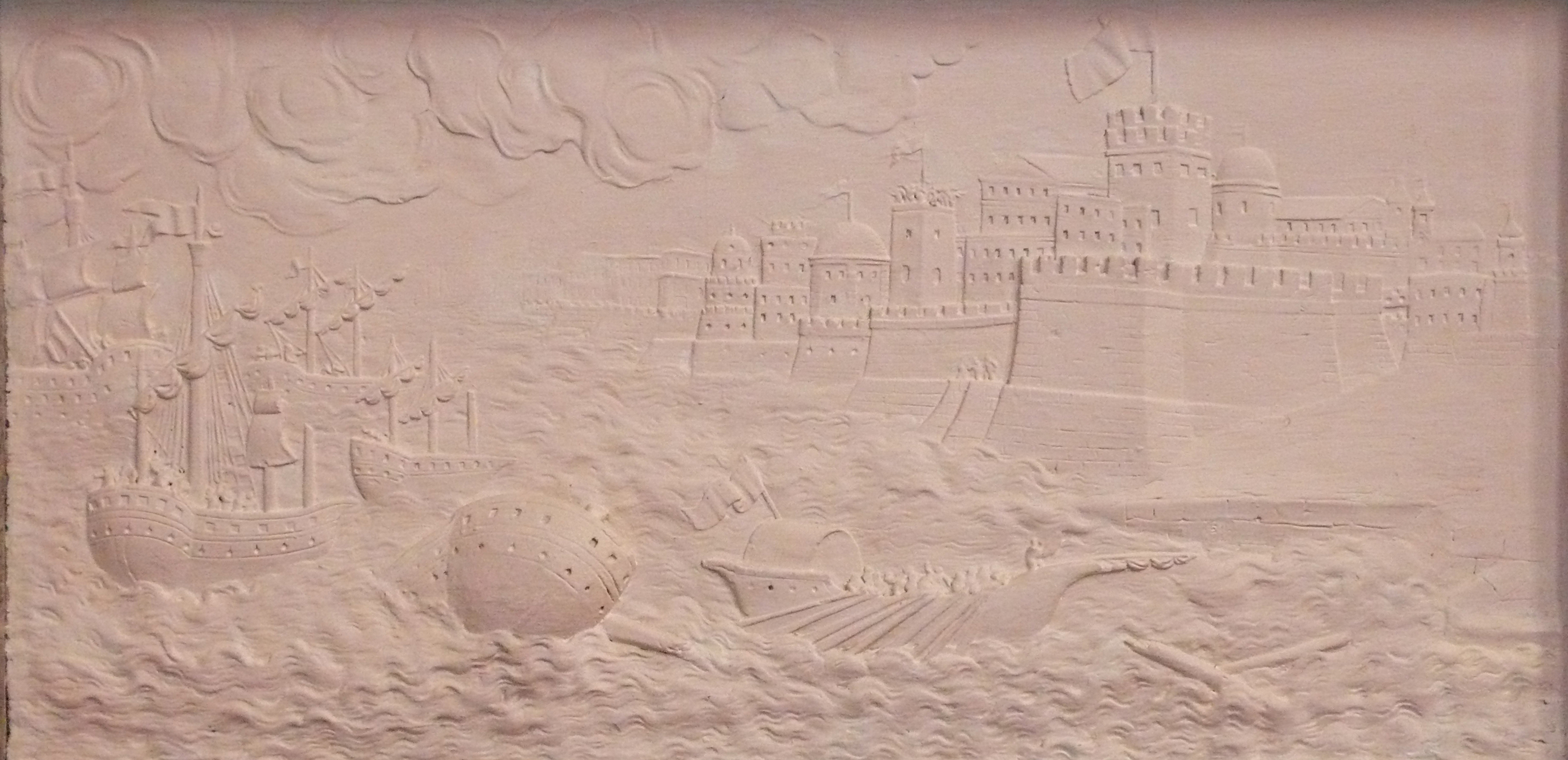 Vienna. Church of the Maltese Order: Monument for grand master Jean Parisot de la Valette ( 1806 ): Relief showing the the Osman siege of Malta 1565